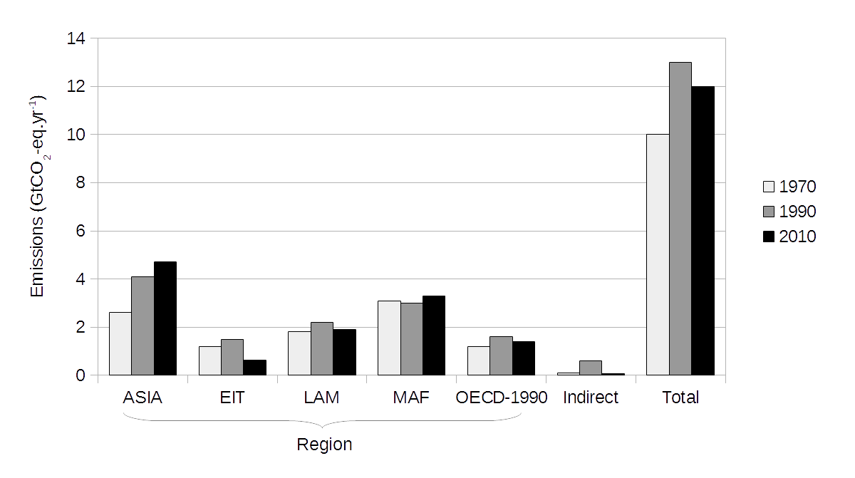 This graph shows greenhouse gas emissions from agriculture, forestry and other land use, covering the years 1970, 1990 and 2010. Emissions are measured in units of billion (109) tonnes of carbon dioxide-equivalent per year. Emissions are assigned to the following regions (see notes for full details): ASIA: Non-OECD Asia EIT: Economies in Transition, made up of Eastern Europe and part of the former Soviet Union LAM: Latin America and Caribbean MAF: Africa and Middle East OECD-1990: OECD countries in 1990 Indirect and total emissions are also shown. Data are tabulated in a later section. Notes Data are from the following source: Figure 11.2, in: Chapter 11: Agriculture, Forestry and Other Land Use (AFOLU), in: IPCC AR5 WG3; Edenhofer, O., et al., ed. (2014). Climate Change 2014: Mitigation of Climate Change. Contribution of Working Group III (WG3) to the Fifth Assessment Report (AR5) of the Intergovernmental Panel on Climate Change (IPCC). Cambridge University Press.. Archived 29 June 2014. Details on regional aggregations are given in: A.II.2 Region Definitions, in: Annex II: Metrics and Methodology, in: IPCC AR5 WG3.